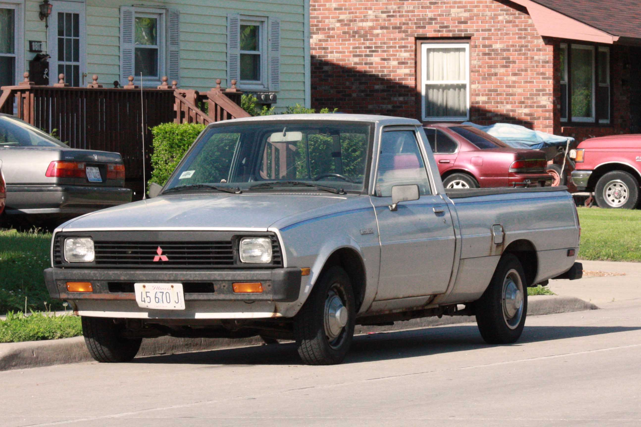 1983-1986 Mitsubishi Mighty Max, with Illinois license plate